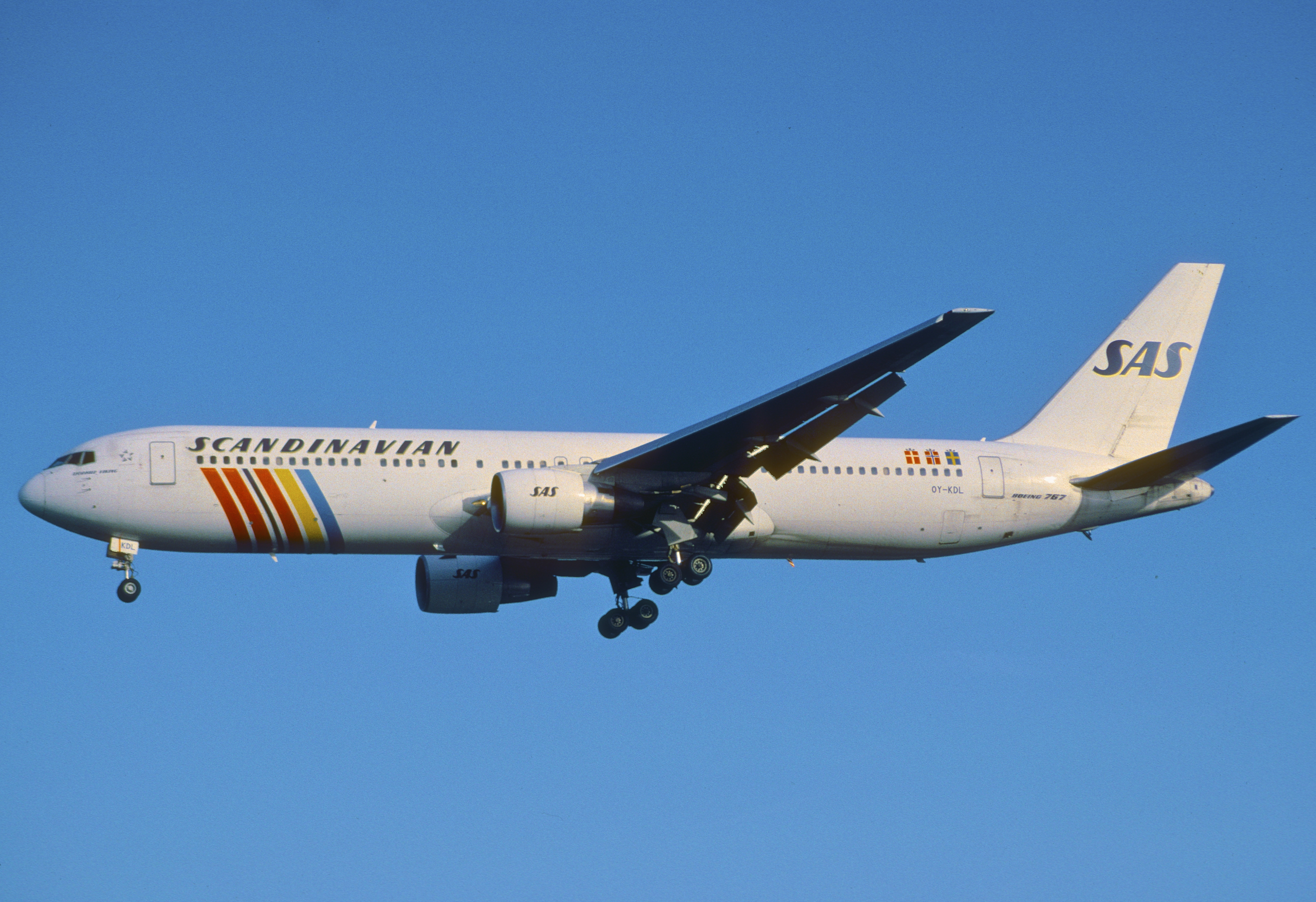 158ae - Scandinavian Airlines Boeing 767-300; OY-KDL@LHR;27.10.2001